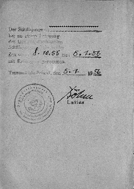 Sailorsbook - shipsboy - a note about participating in a three-month training course at the Sailors School Travemünde-Priwall on 05-01-1956